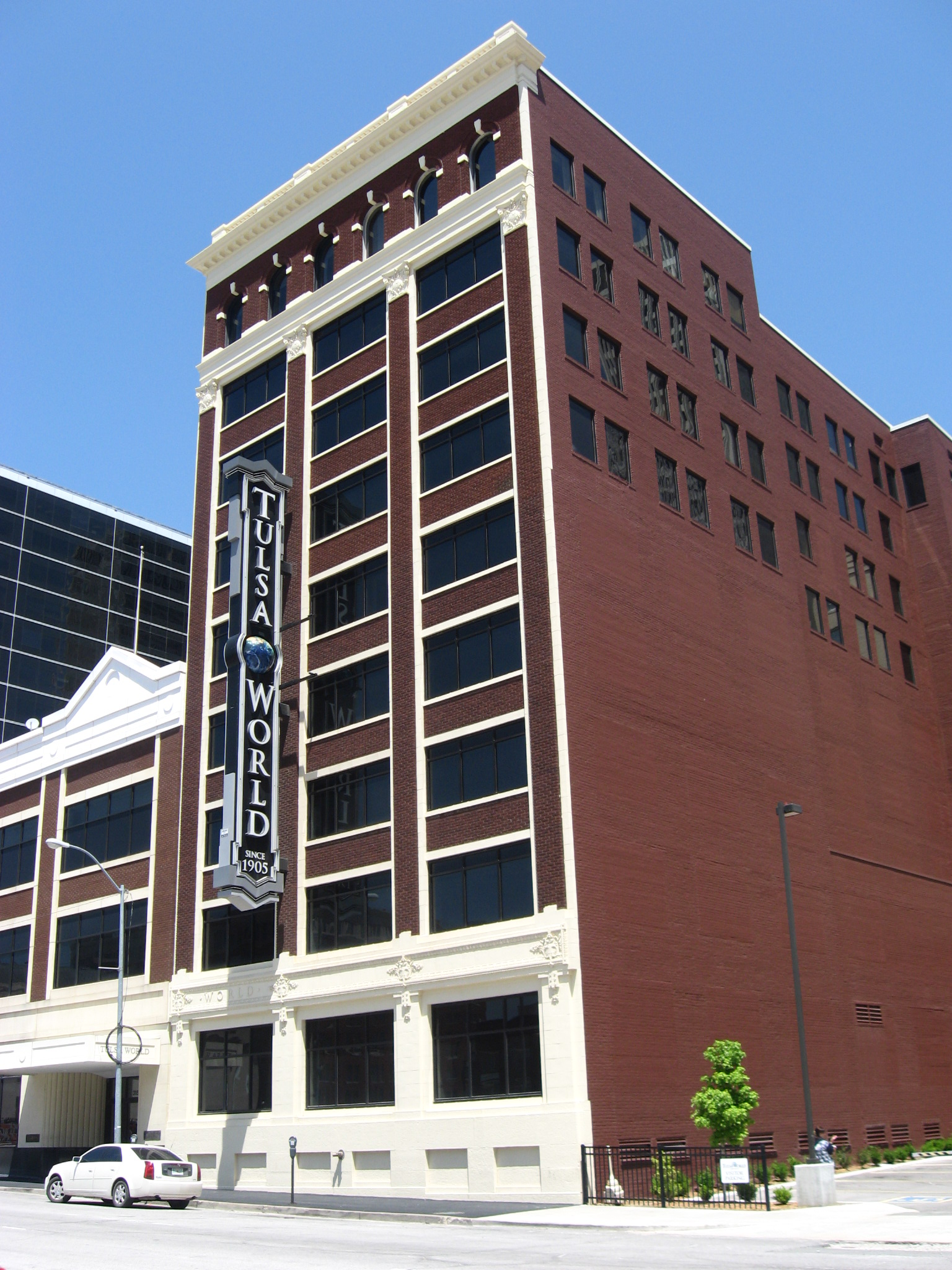 Tulsa World